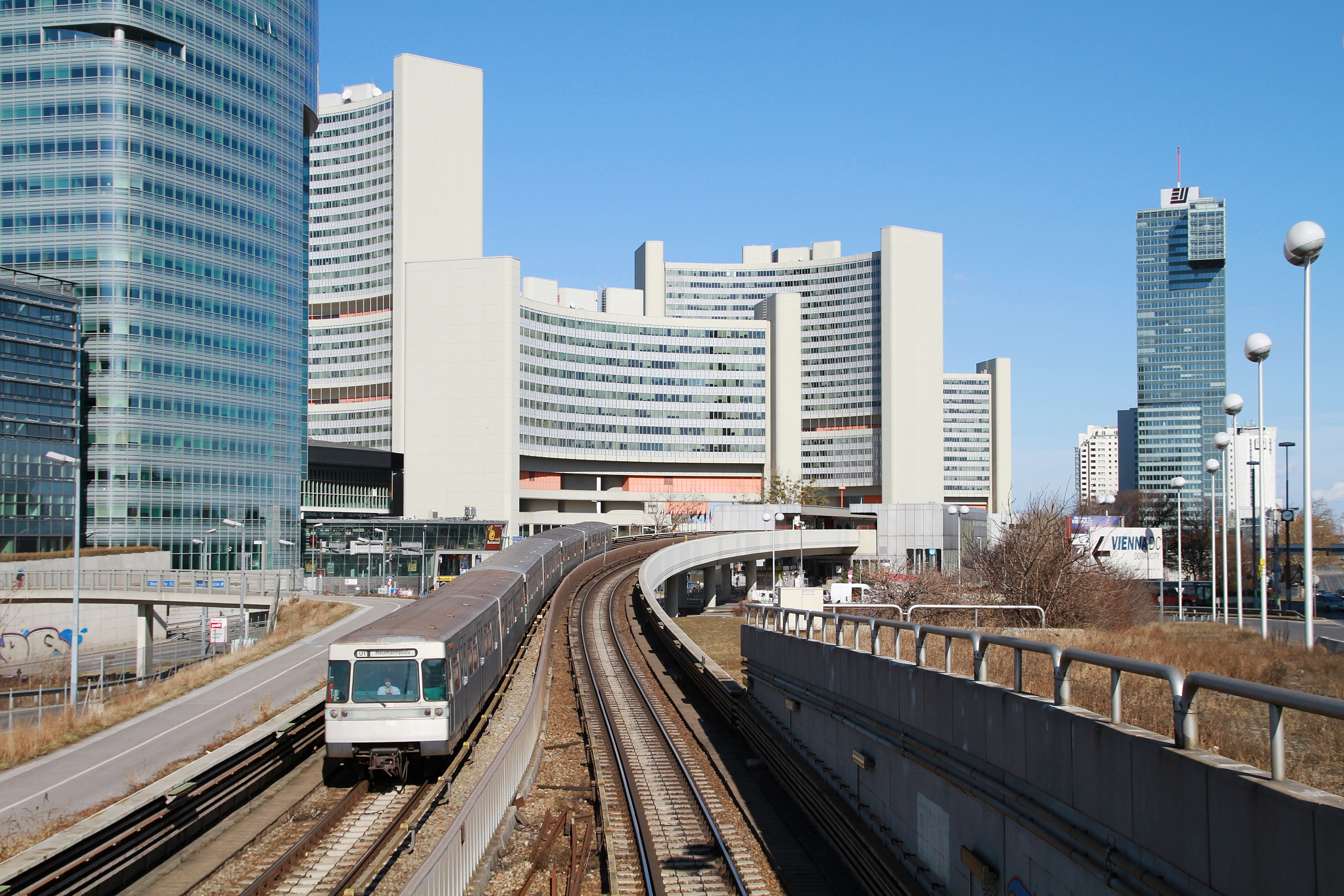 U1 metro line in Vienna, Austria. A U type train entering the ramp into the Reichsbrücke. Donau city to the left and the Vienna International Centre in the background.